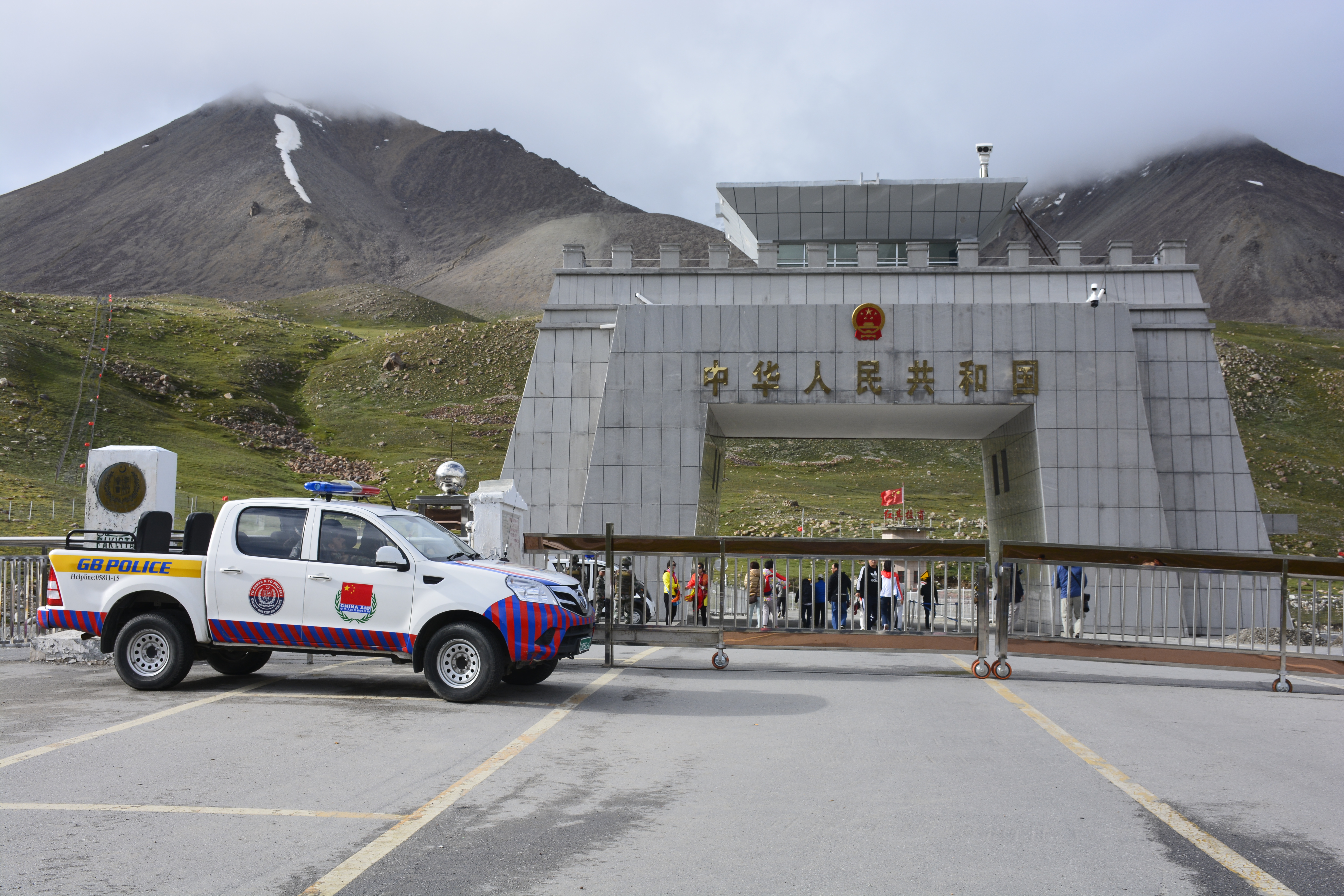 Khunjarab pass pakistan china boarder